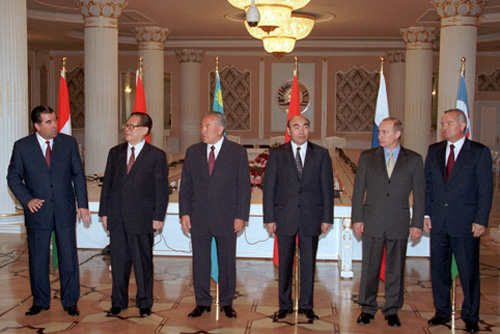 DUSHANBE. The Shanghai Five heads of state addressing a news conference.